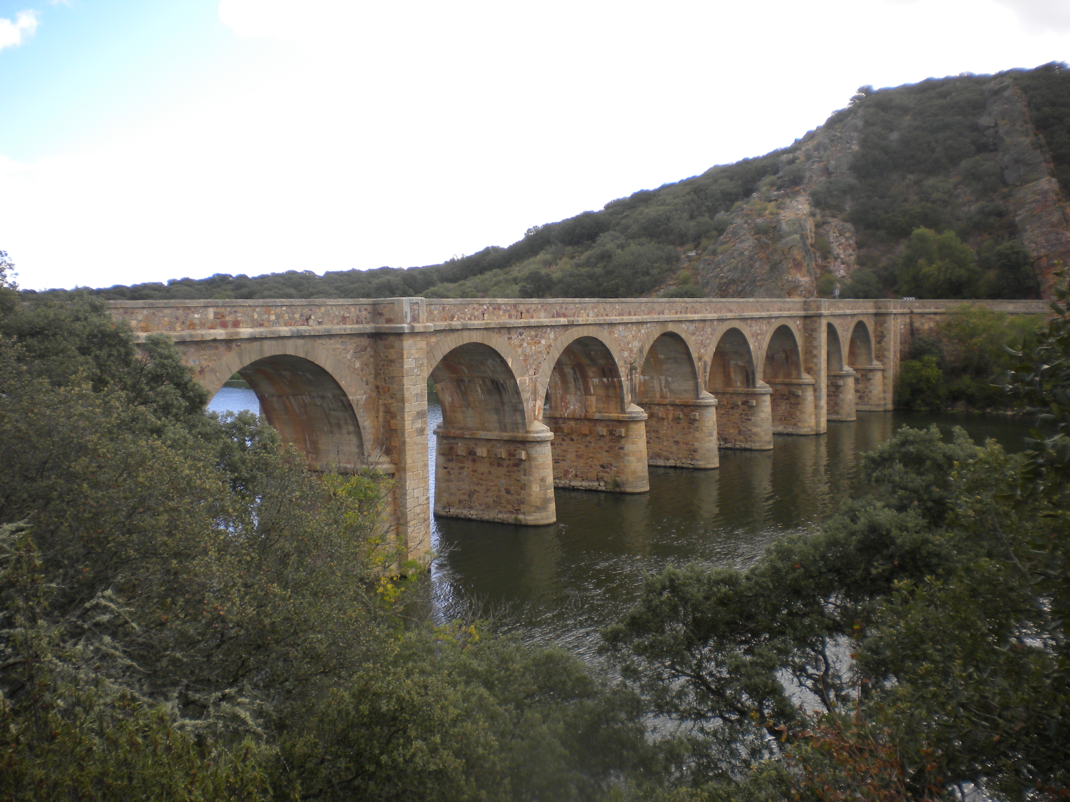 "Quintos bridge" (built in 1920) over Esla river (Zamora, Spain).